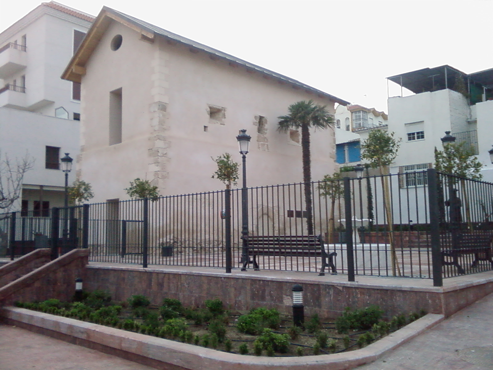 La Tribuna building. Arroyo de la Miel, Benalmádena, Málaga, Spain